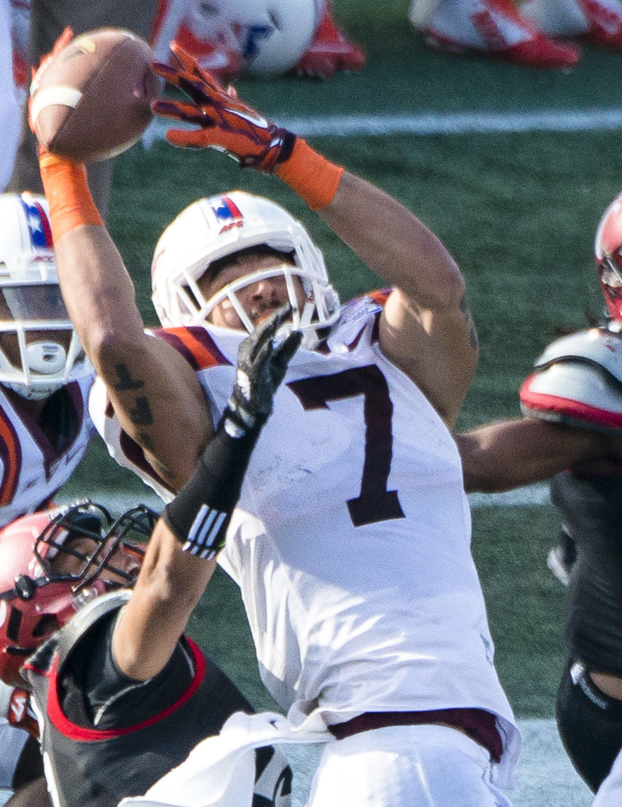 Bucky Hodges (#7 in white) catches the ball for the Virginia Tech Hokies during the 2014 Military Bowl held at Navy-Marine Corps Memorial Stadium, in Annapolis, Md., Dec. 27, 2014. Virginia Tech defeated Cincinnati 33-17. DoD photo by Army Staff Sgt. Sean K. Harp/Released